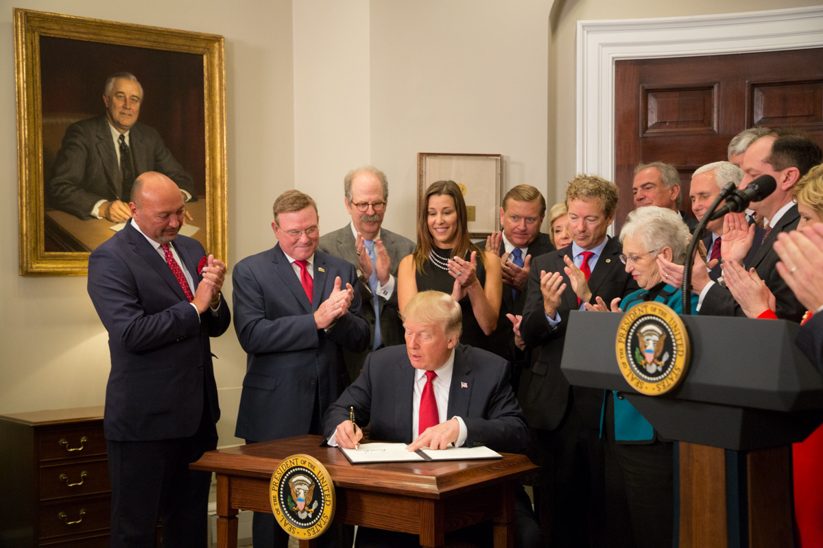 President Donald J. Trump, joined by Vice President Mike Pence, Cabinet members and legislators, signs an Executive Order promoting healthcare choice and competition in the Roosevelt Room at the White House, Thursday, October 12, 2017, in Washington, D.C. President Trump said the Executive Order directs the Department of Health and Human Services, the Treasury, and the Department of Labor to take action to increase competition, increase choice, and increase access to lower-priced, high quality healthcare options. (Official White House Photo by Andrea Hanks)